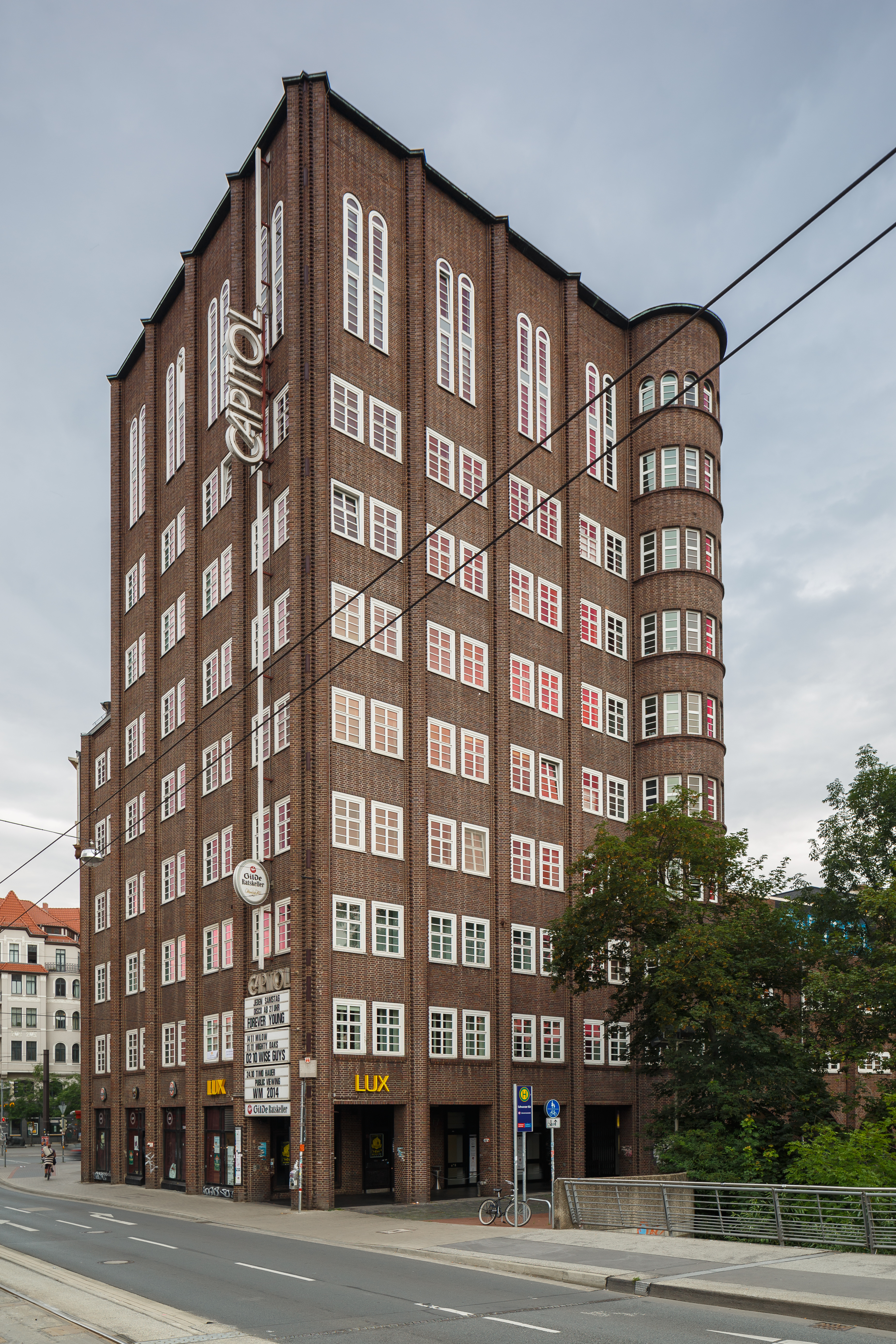 "Capitol" high-rise at Schwarzer Baer square located in Linden district, Hanover, Germany.